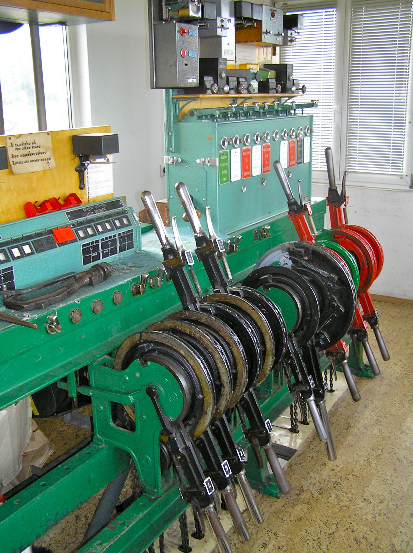 Mechanic interlocking machine (lever frame) in the station Opočno pod Orlickými horami (East Bohemia)